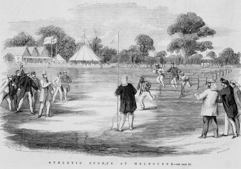 Engraving of Aboriginal cricketers in a hurdle race, Melbourne Cricket Ground